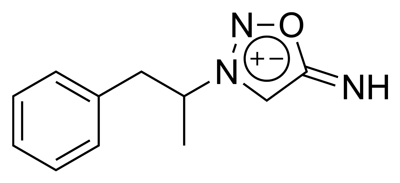 Chemical structure of feprosidnine